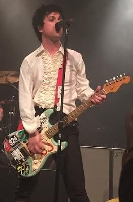 Billie Joe Armstrong (Green Day) at the House Of Blues in 2015